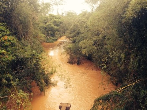 Roque River - Pirassununga / Sao Paulo